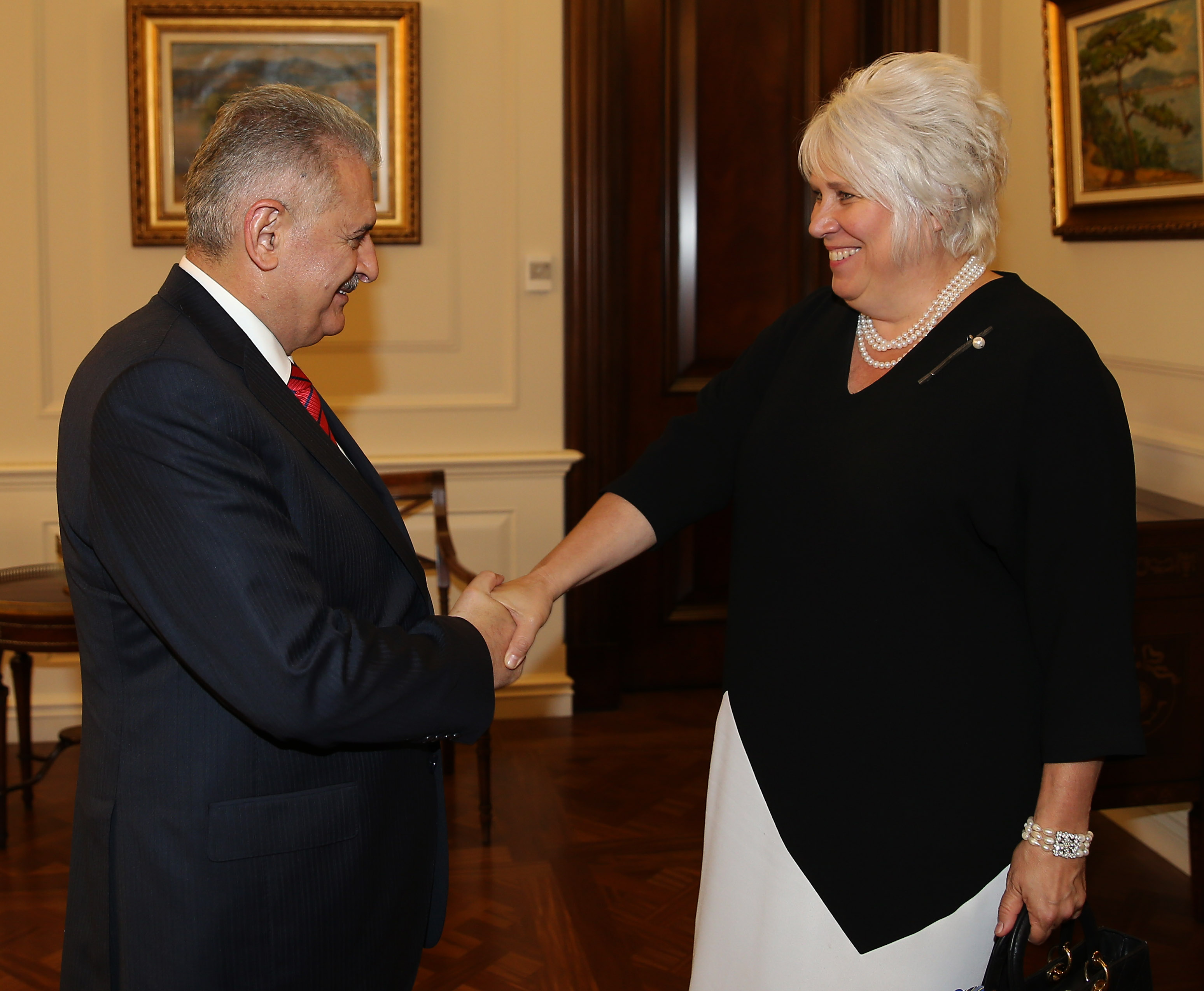 FM of Estonia Marina Kaljurand met with the Turkish Prime Minister Binali Yıldırım